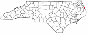 Category:North Carolina Dot Maps